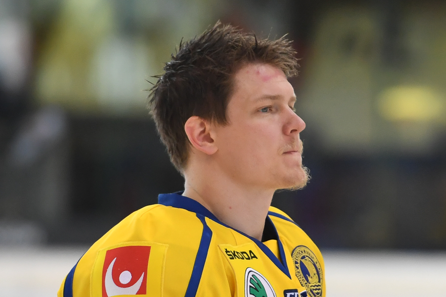 6/4/2017, Vienna, Austria, Sport, Ice Hockey, Friendly match Austria vs Sweden.